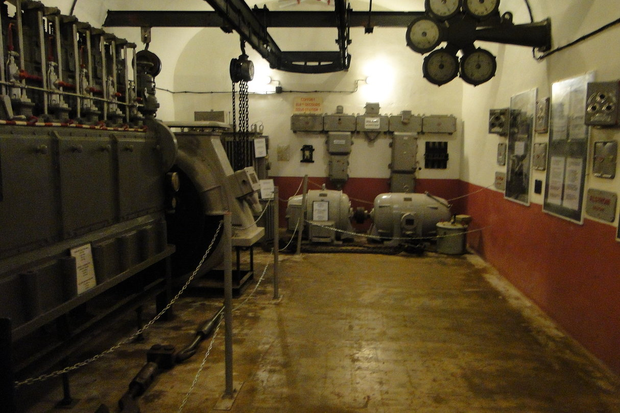 Electric power station in the Fort Schoenenburg